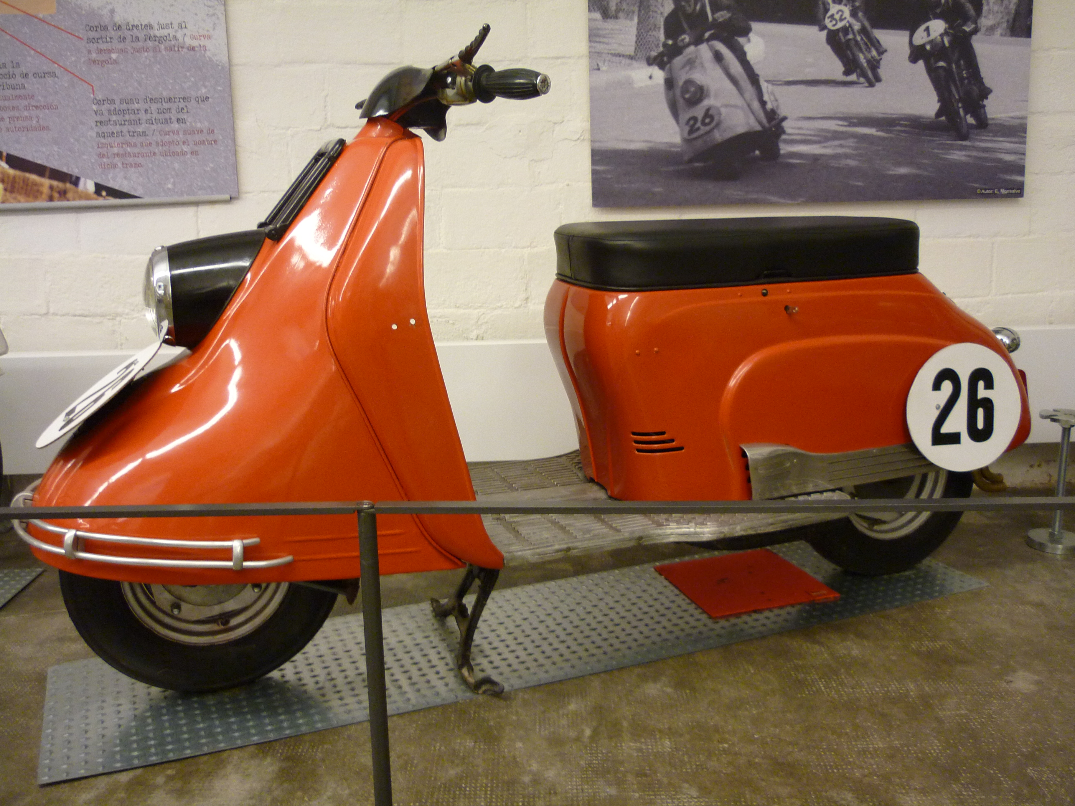 Heinkel Tourist 175cc. This scooter was ridden by Albert Pfuhl and Roland Müller at VI 24 Hours of Montjuïc, on 1960. They took the holeshot and finished the race in tenth place overall.